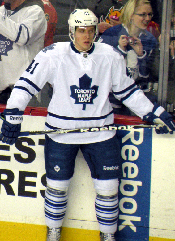 Toronto Maple Leafs forward Nikolai Kulemin prior to a National Hockey League game against the Calgary Flames.